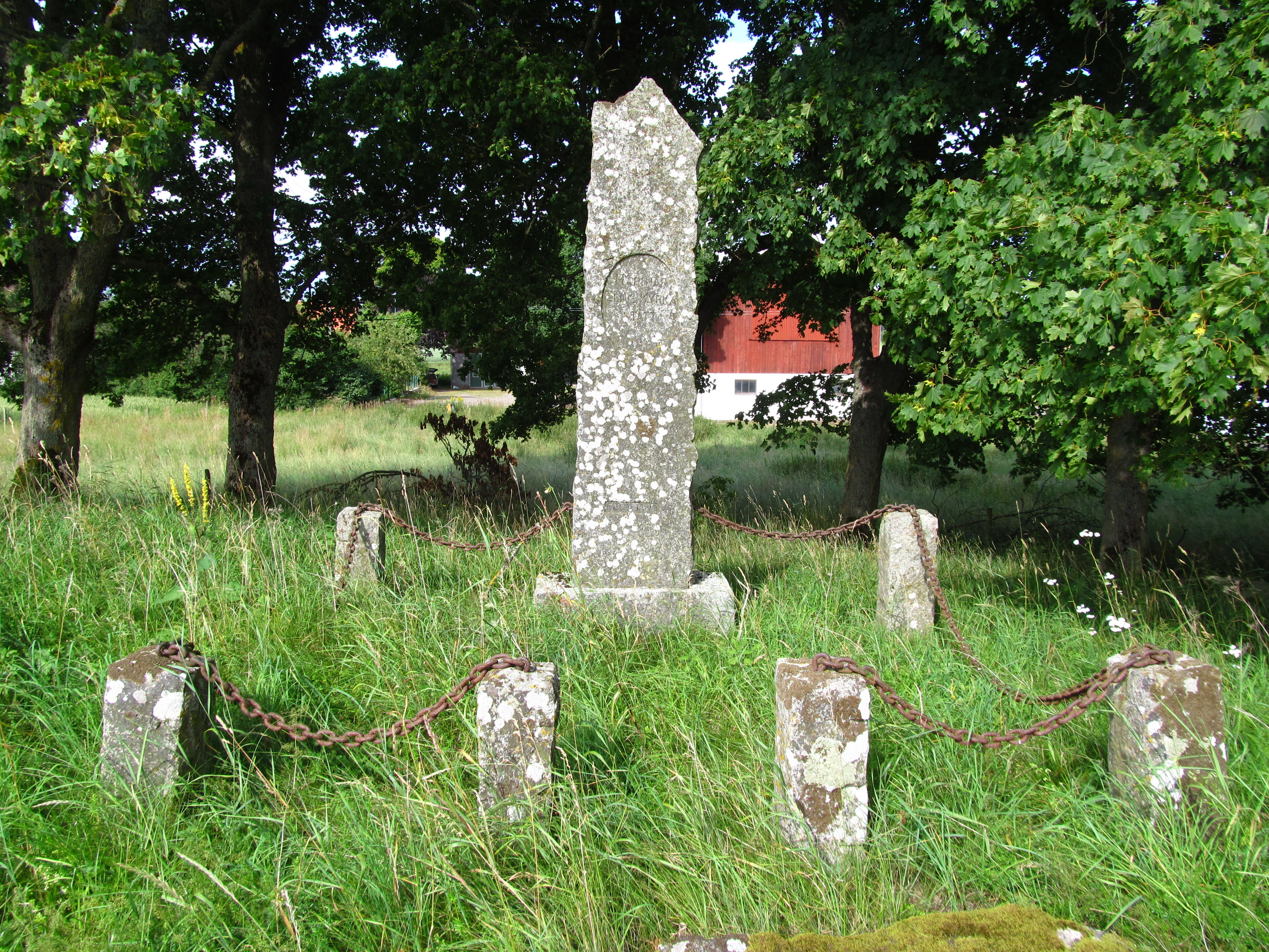 Place of Elin old church. Built in the middle-ages and dismantled in the 16th century. The memorial stone has the inscription (translated) "Here was the location of Elin church - Raised 1943".